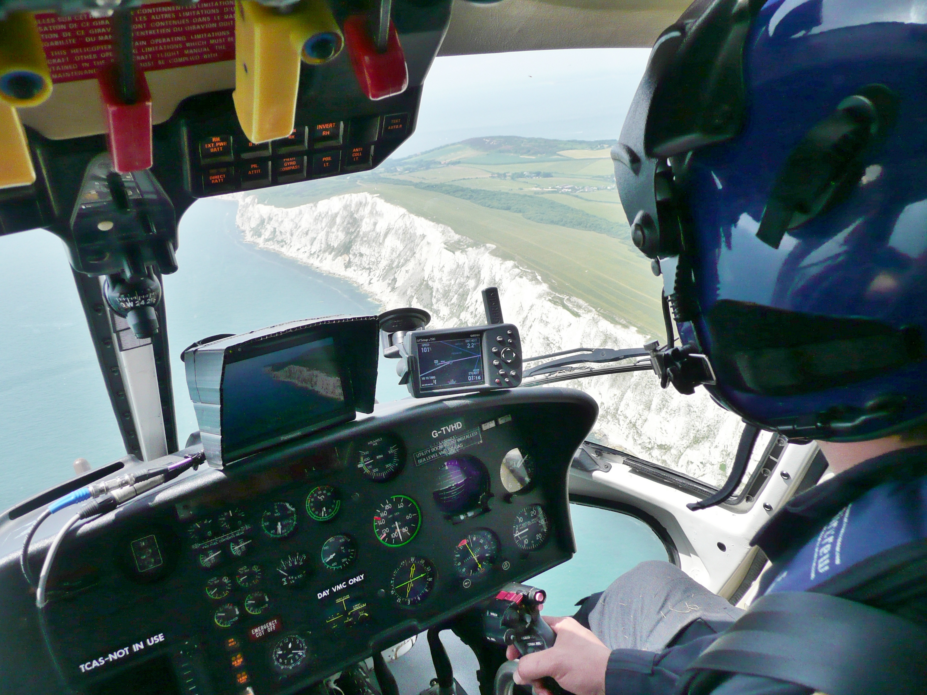 View inside the cabin of the BBC News Helicopter flying along the Dover coast (aircraft owned & operated by Arena Aviation Limited)